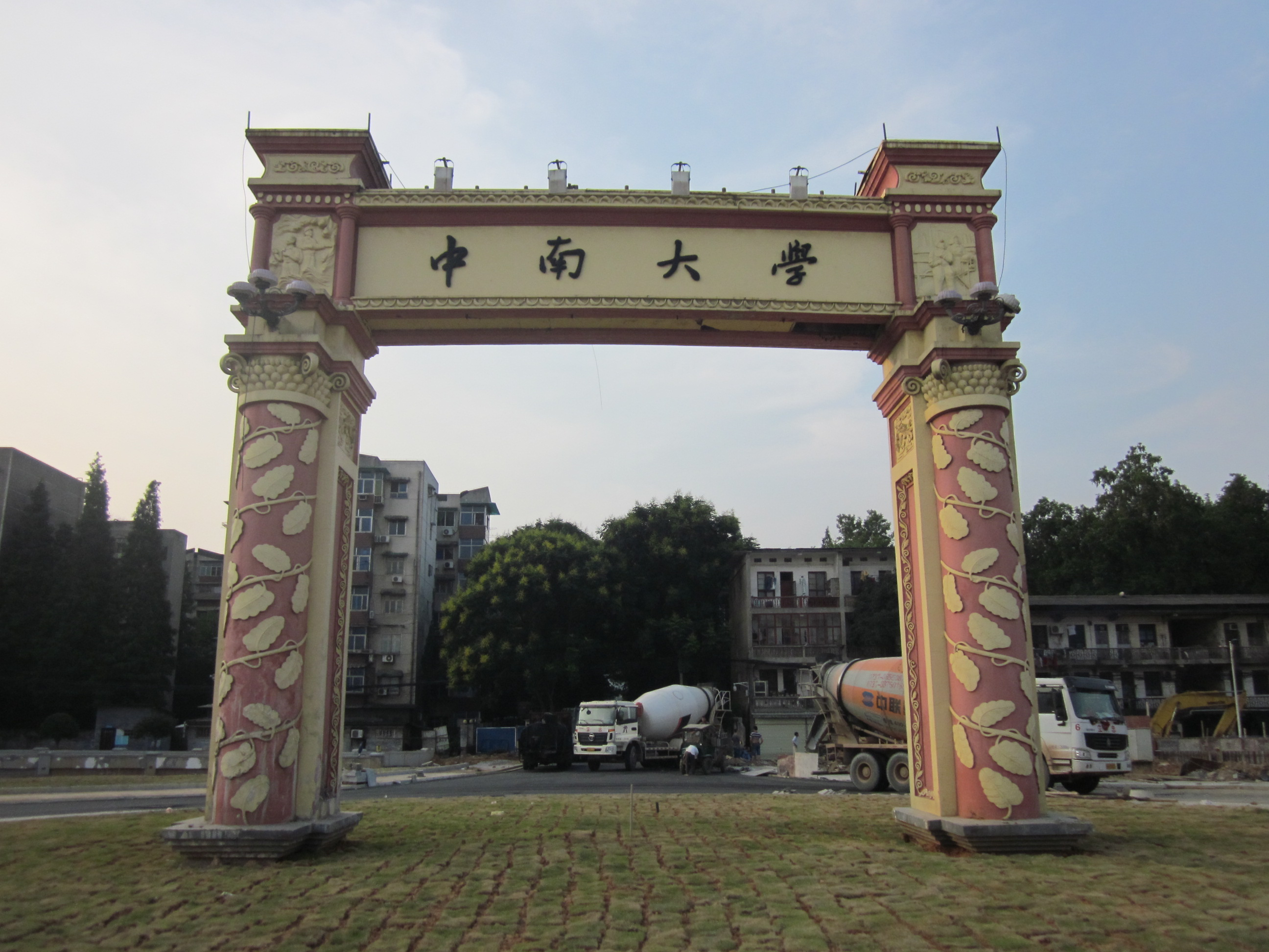 Central South University (CSU) located in Changsha, a historic and cultural city in Hunan province, central south of the People's Republic of China.